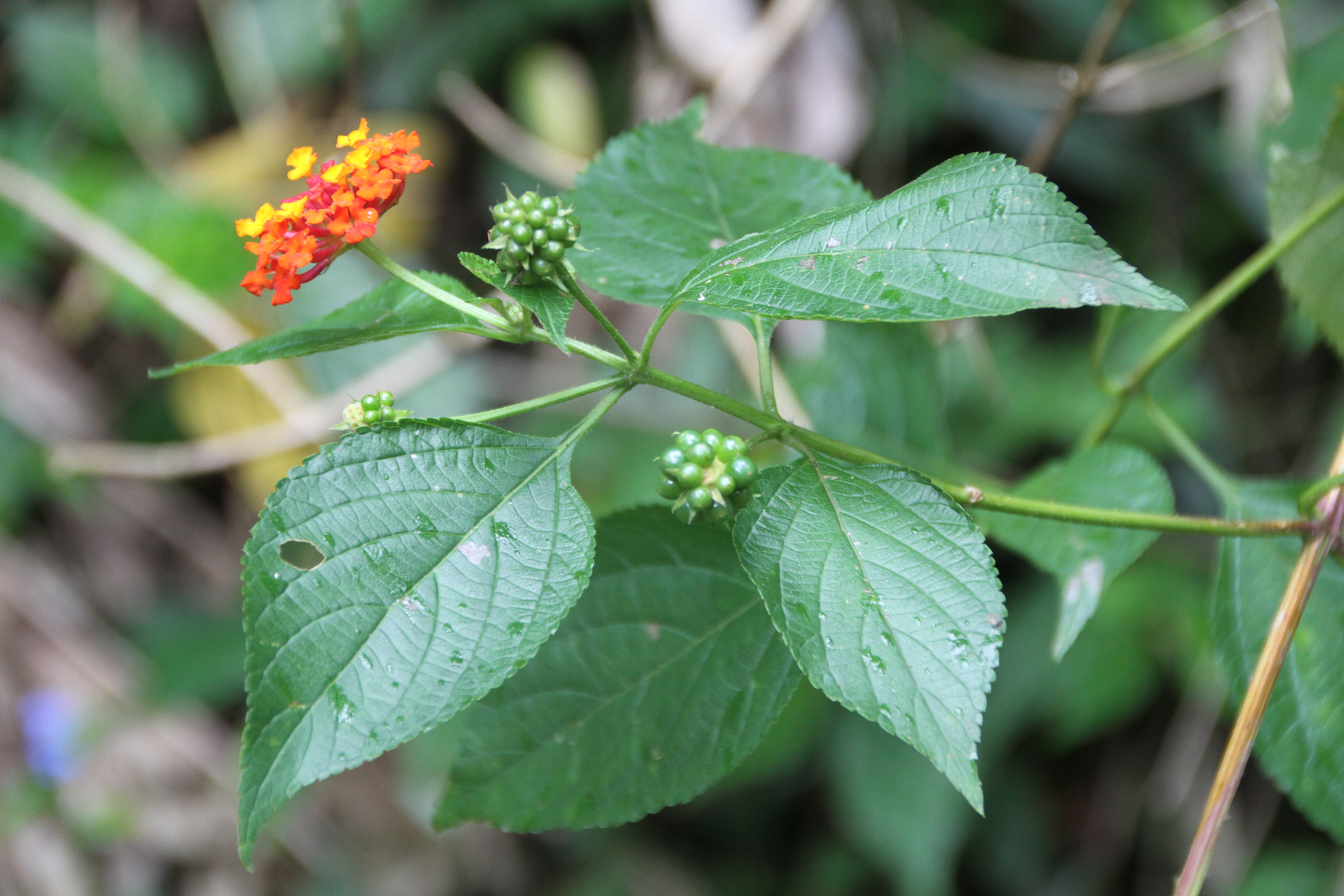 Lantana scabrida, in the El Yunque National Forest, eastern Puerto Rico.